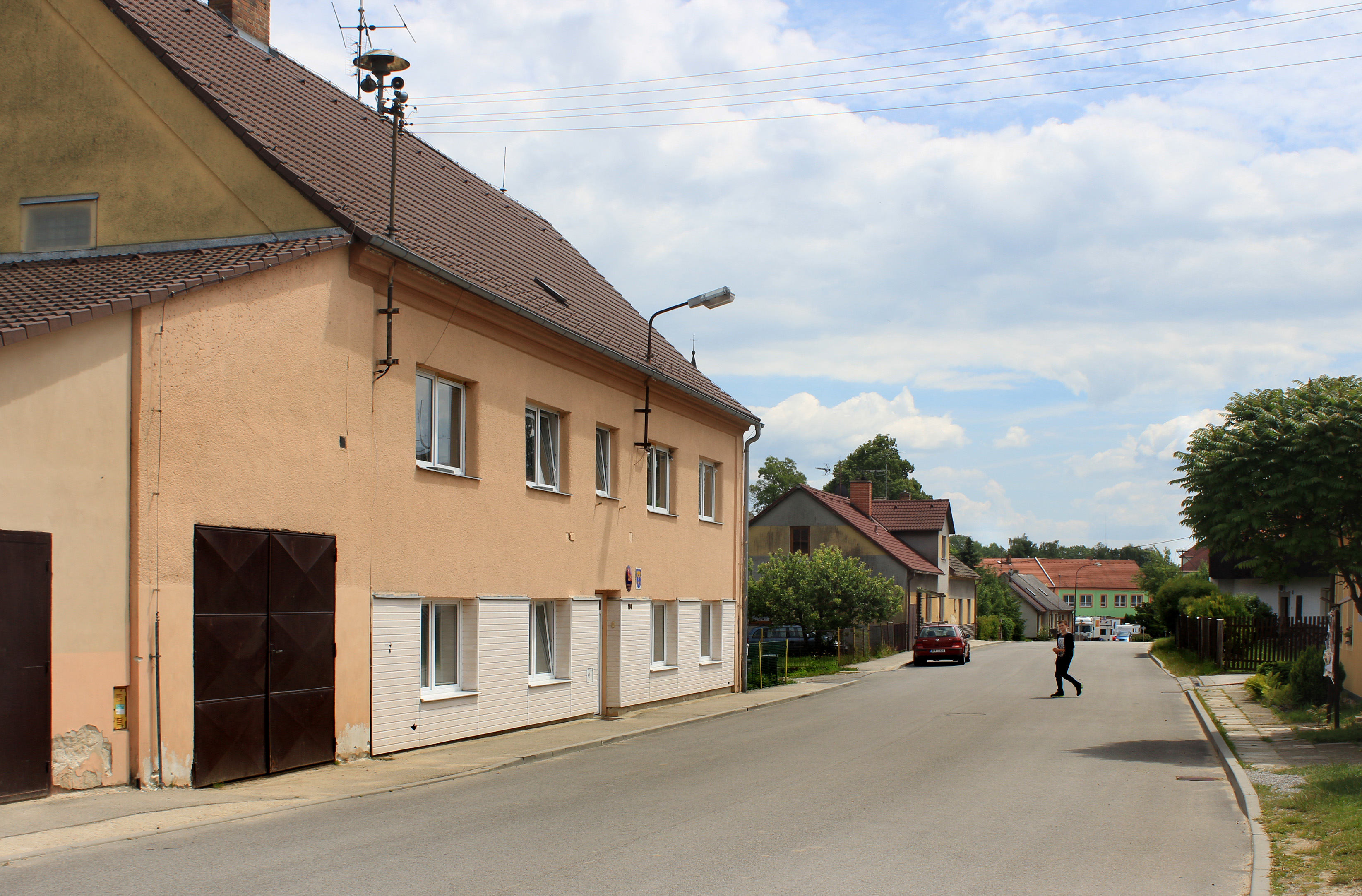 Municipal office in Lodhéřov, Czech Republic.